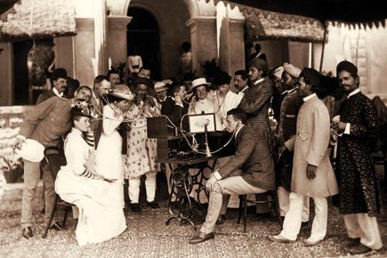 Phonograph in Hyderabad, India. A Hyderabadi Nawab Ghalib Jung and his friends listening to phonograph in Hyderabad. 20/05/1891